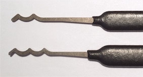 Types of lock pick used to "rake" open a lock, also known as a kinetic attack.